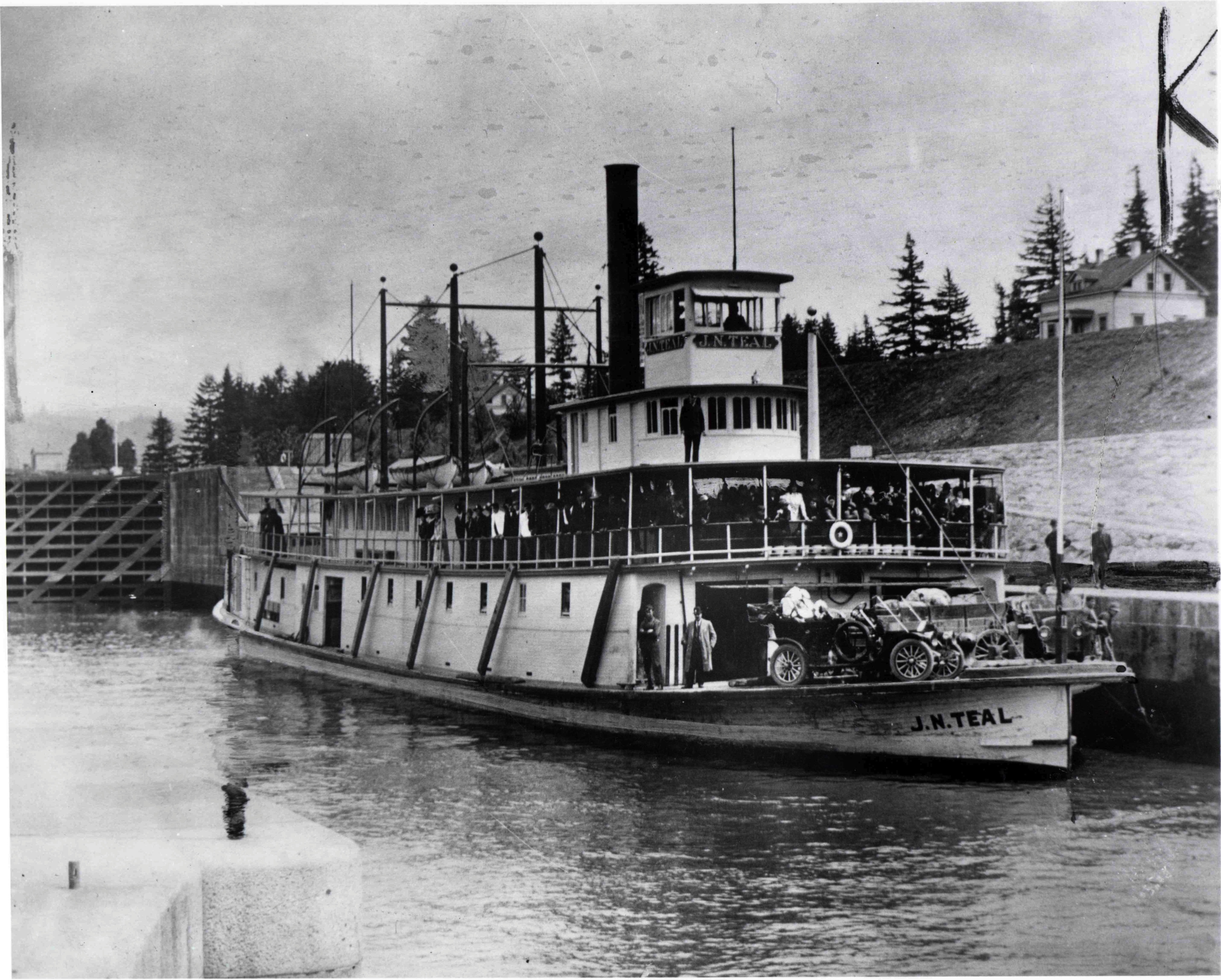 Description: The "J.N. Teal" served communities in Oregon along the Columbia River. Creator/Photographer: Unidentified photographer Medium: Black and white photographic print Culture: American Geography: USA Date: 1911 Collection: U.S. Mail Packets and Boats Repository: National Postal Museum Accession number: A.2006-96